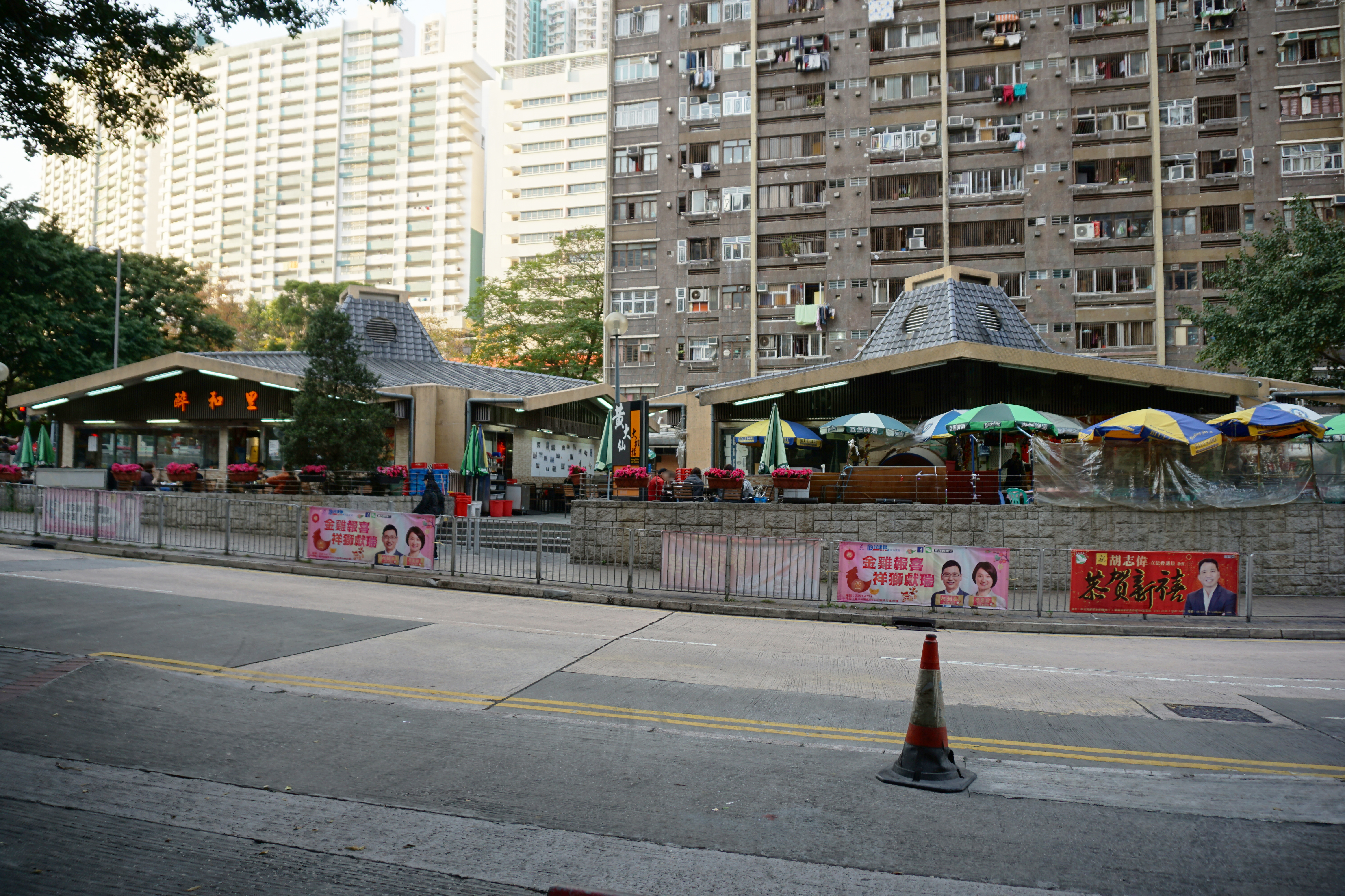 Dai Pai Dong in Wong Tai Sin, Hong Kong.